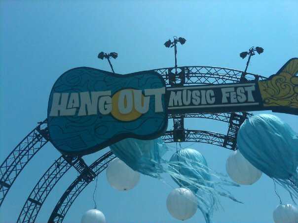 The entrance to the Hangout Music Festival in Gulf Shores, Alabama.